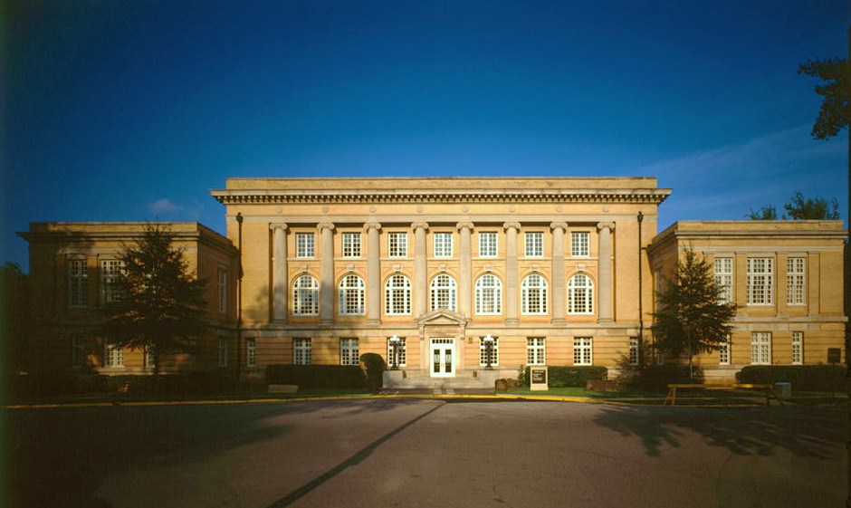 Smith Hall, Capstone Drive at Sixth Avenue, Tuscaloosa, Tuscaloosa County, AL. EXTERIOR VIEW, LOOKING WEST, FRONT ELEVATION. Built in 1910. Named for Dr. Eugene Allen Smith, professor of geology at the University of Alabama (1871-1913) and State Geologist (1873-1926), Smith Hall is significant both as an integral part of the Greater University Plan for the University of Alabama at Tuscaloosa and as a Beaux Arts style academic structure that originally housed geological and biological laboratories, classrooms, offices, and, most importantly, a museum known since 1913 as the Alabama Museum of Natural History. Image courtesy of Historic American Buildings Survey—HABS — HABS ALA, 63-TUSLO, 26-13.